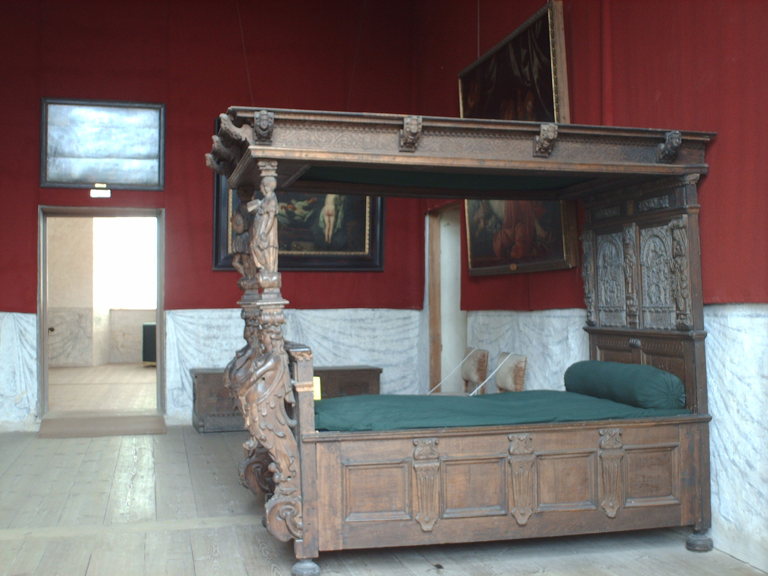 Bed chamber at Vadstena Castle, Sweden.